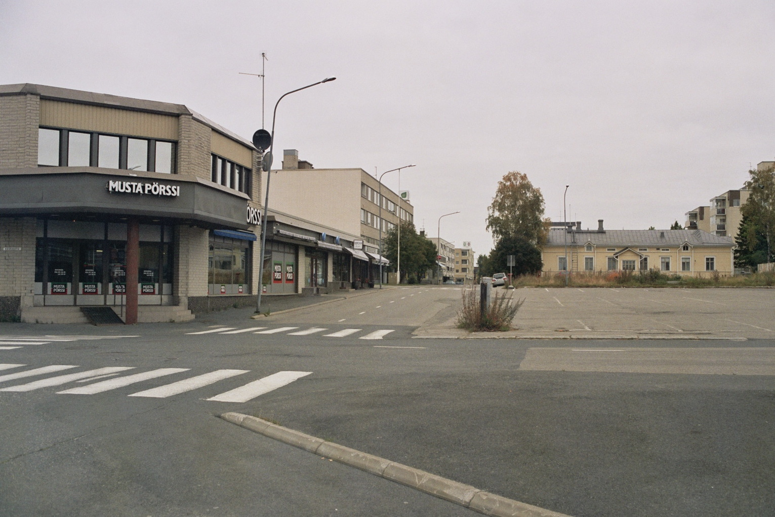 Eliaksenkatu, one of the streets in the Suensaari district of Tornio, Finland. Musta Pörssi (see the shop on the left) is a Finnish chain store selling home electronics and appliances.